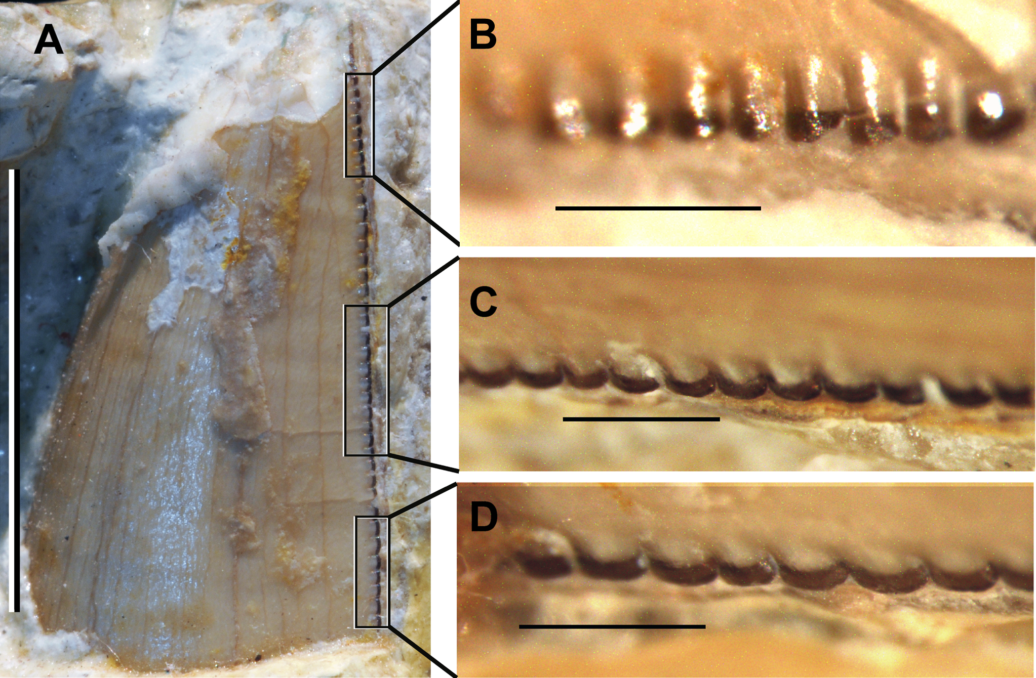 Fourth mandibular tooth from the left side of Sahitisuchus fluminensis gen. et sp. nov. (MCT 1730-R), showing the serrations. A, labial surface; B, detail for apex carina; C, detail for middle carina; D, detail for basal carina. Scale bar in A: 10 mm; B, C and D: 1 mm.